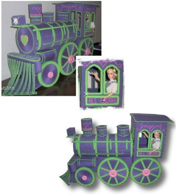 This is a project designed by Lissa Mitchell © 2004-2007, worked in plastic canvas. Found here